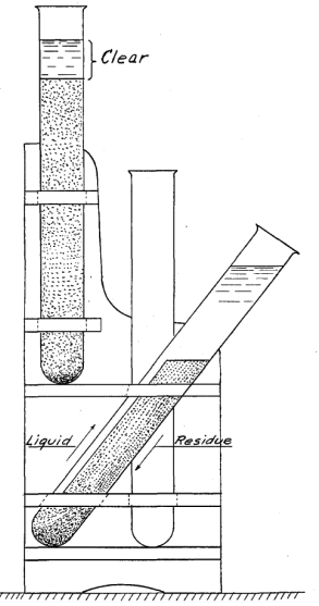 Slanting the tube will form a channel for liquid at one side of the tube, and a channel on the opposite side for the solids.